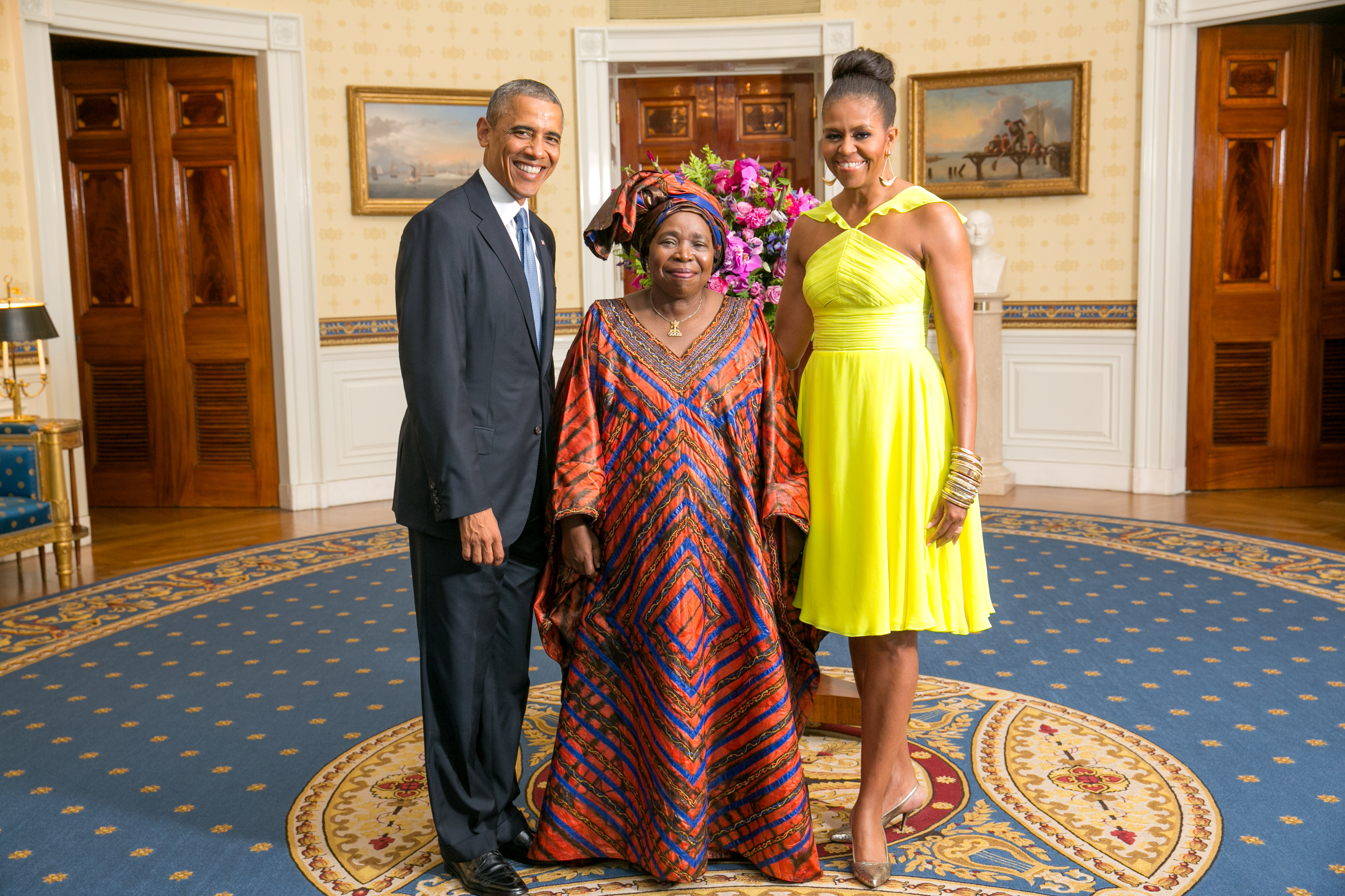 President Barack Obama and First Lady Michelle Obama greet Her Excellency Dr. Nkosazana Clarice Dlamini Zuma, Chairperson of the African Union Commission, in the Blue Room during a U.S.-Africa Leaders Summit dinner at the White House, Aug. 5, 2014. [Official White House Photo by Amanda Lucidon] This official White House photograph is in the public domain from a copyright perspective, so while restrictions such as personality or privacy rights may apply, in general, manipulations are allowed.